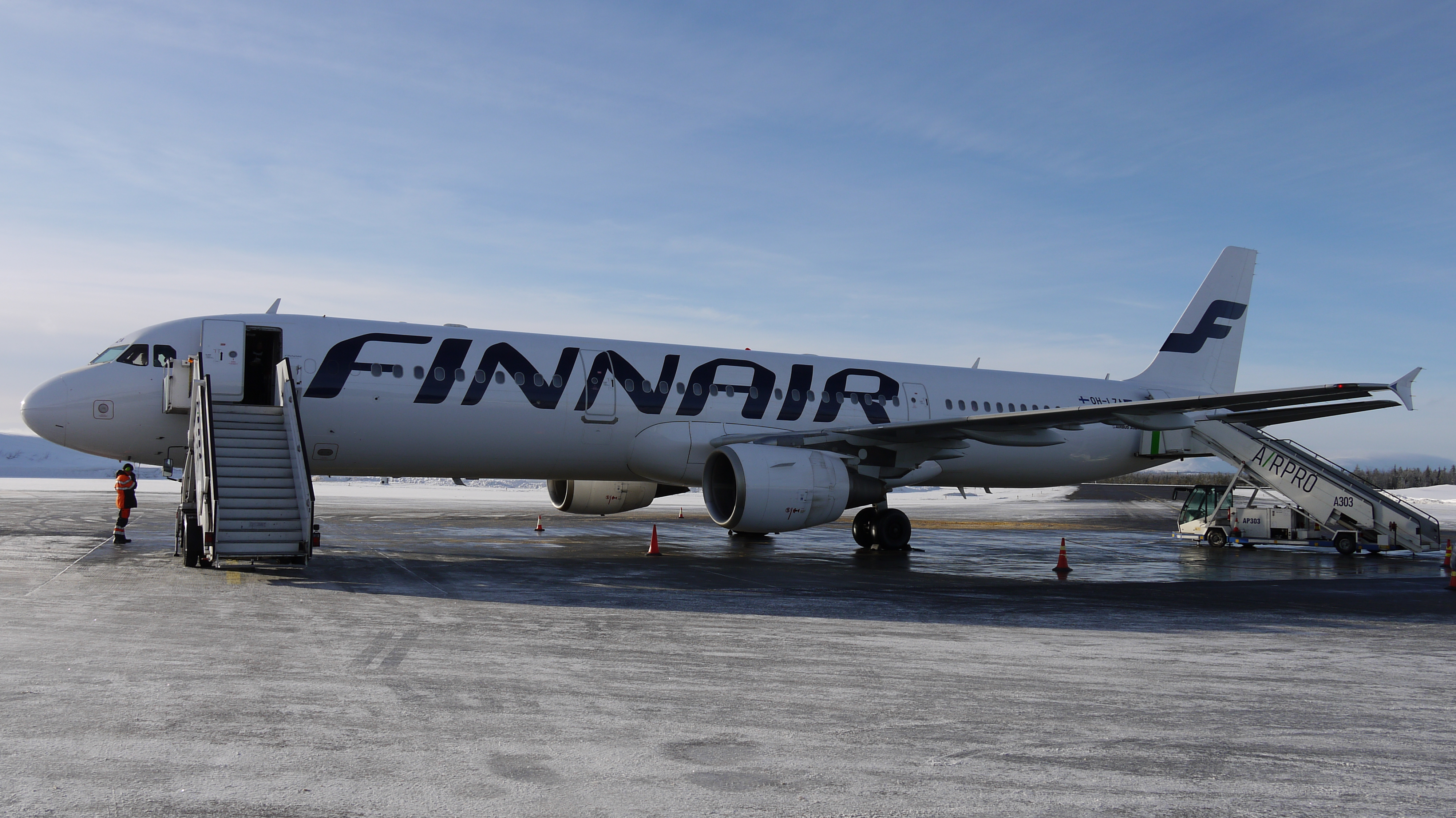 Finnair Airbus A321 passenger aircraft OH-LZA at Kittilä airport in February 2017.